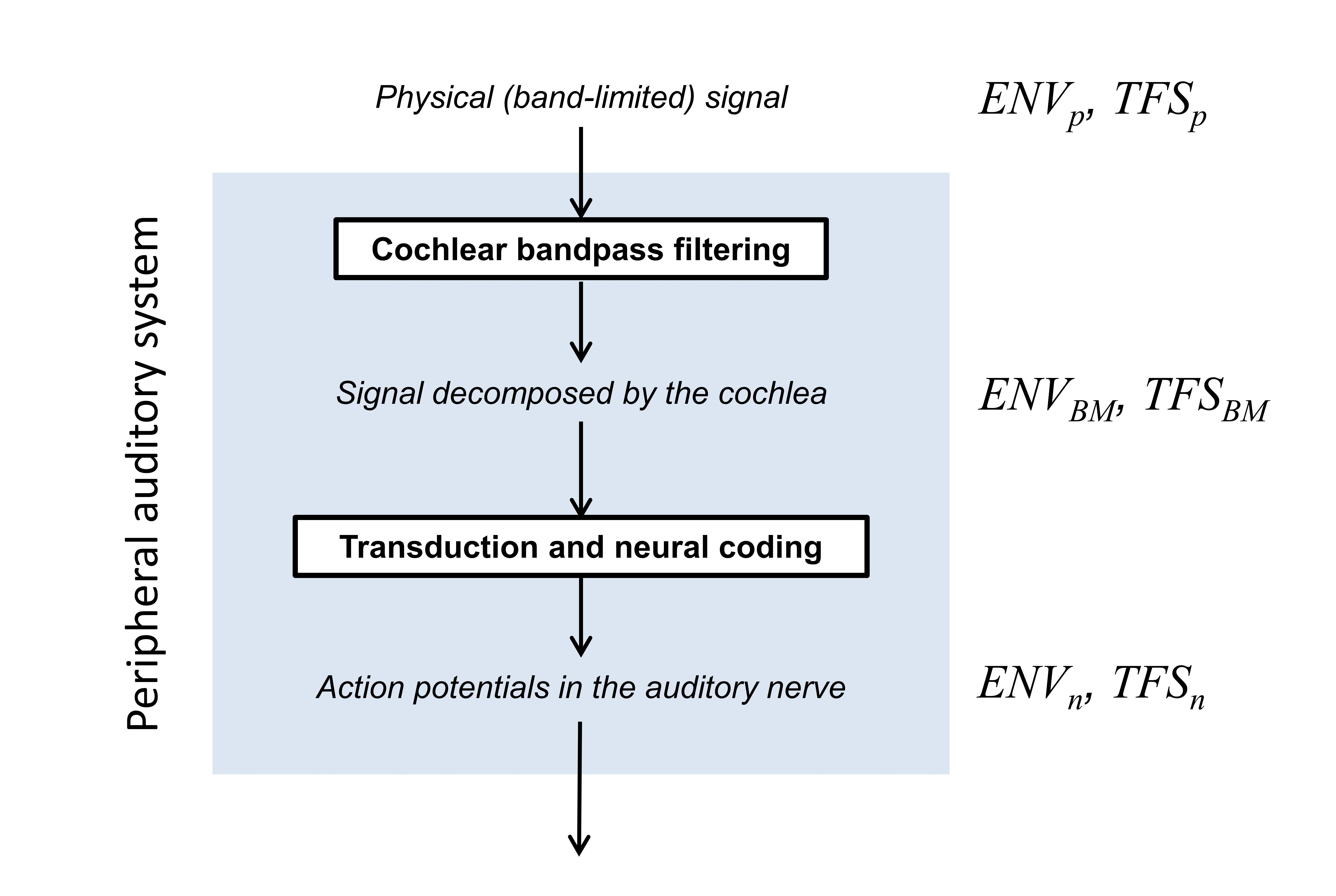 Diagram showing the three levels of temporal envelope and temporal fine structure of a signal processed by the auditory system